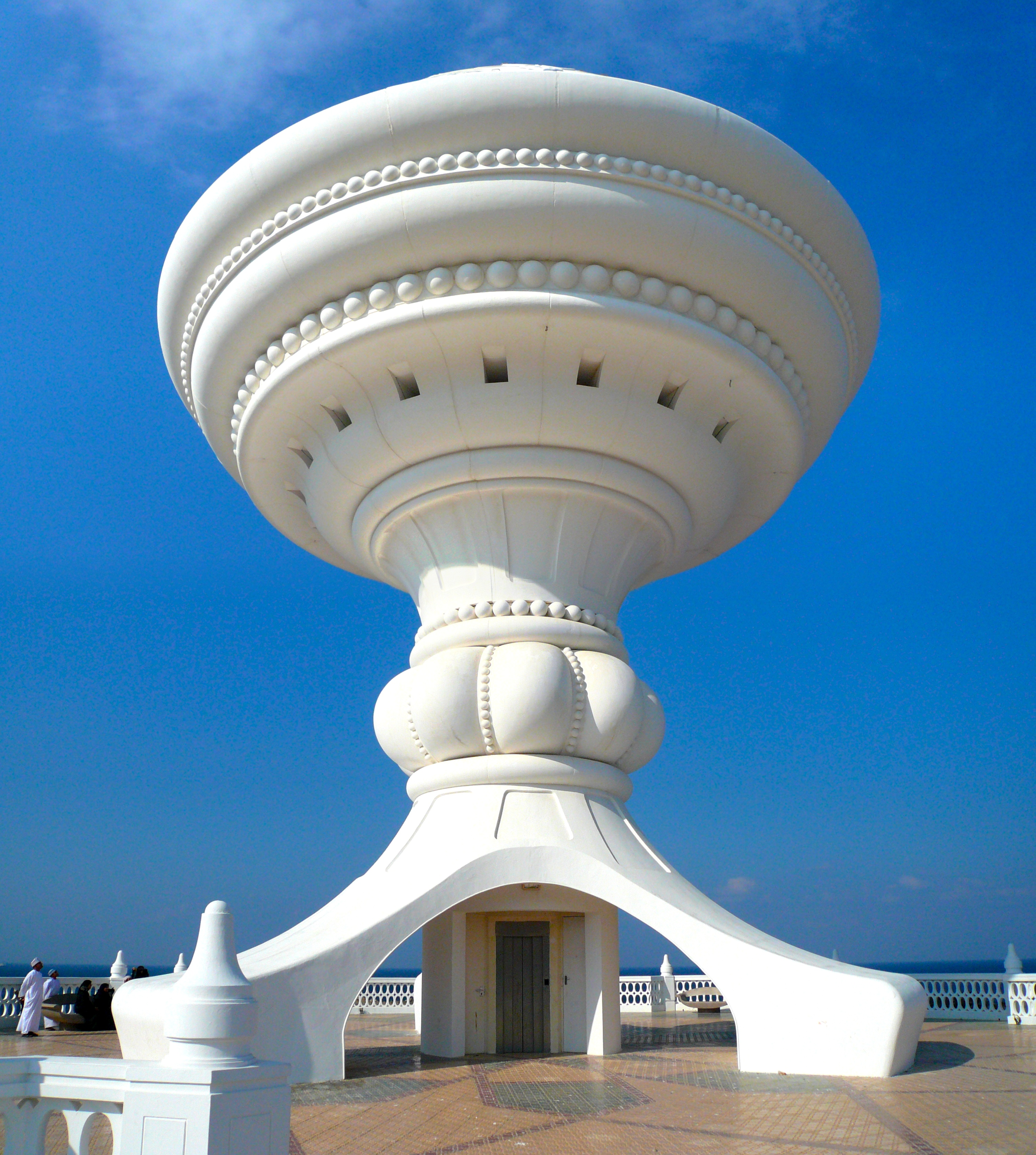 Incense burner at Al Riyam Park in Muscat, Oman. I like how the few clouds in the sky give the illusion of smoke emanating from the incense burnerIncense burner monument